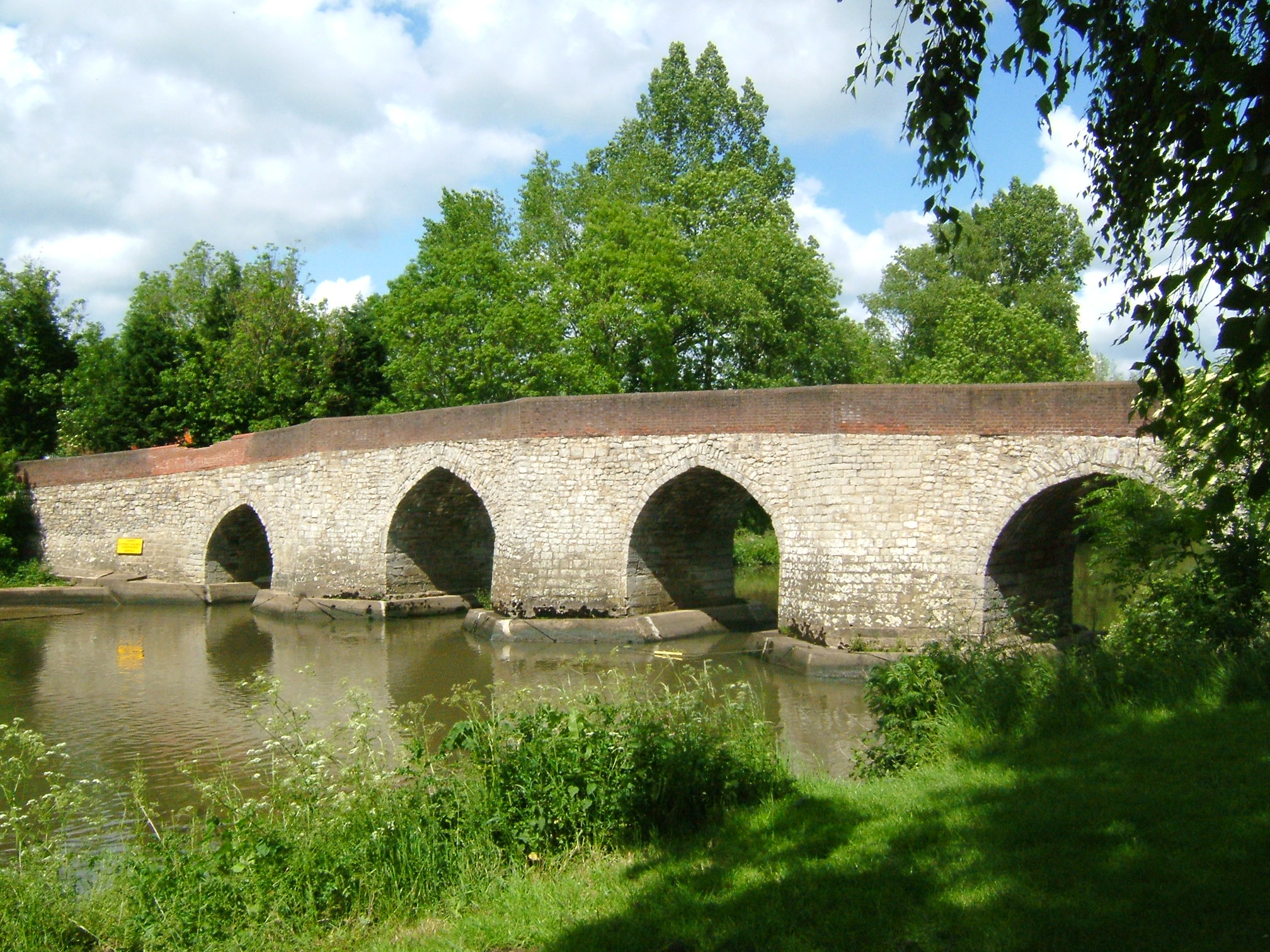 Twyford Bridge on the River Medway near Yalding, Kent. It is just downstream of the automatic sluice where the river drops from +11.2m to +7.41m above mean sea level. The navigation bears left through Hampstead Road Canal and Hampstead Lock; the main stream drops over the weir and sluice and is joined by the River Teise (Lesser Teise) and both pass under Twyford Bridge. The river then flows in a loop towards Yalding, where it is joined by the River Beult which has been joined by the River Teise (the other bit!) and has passed under Town Bridge. Twyford Bridge is not navigable. Twyford bridge is 10 miles from Allington. - Google Maps - Google Earth